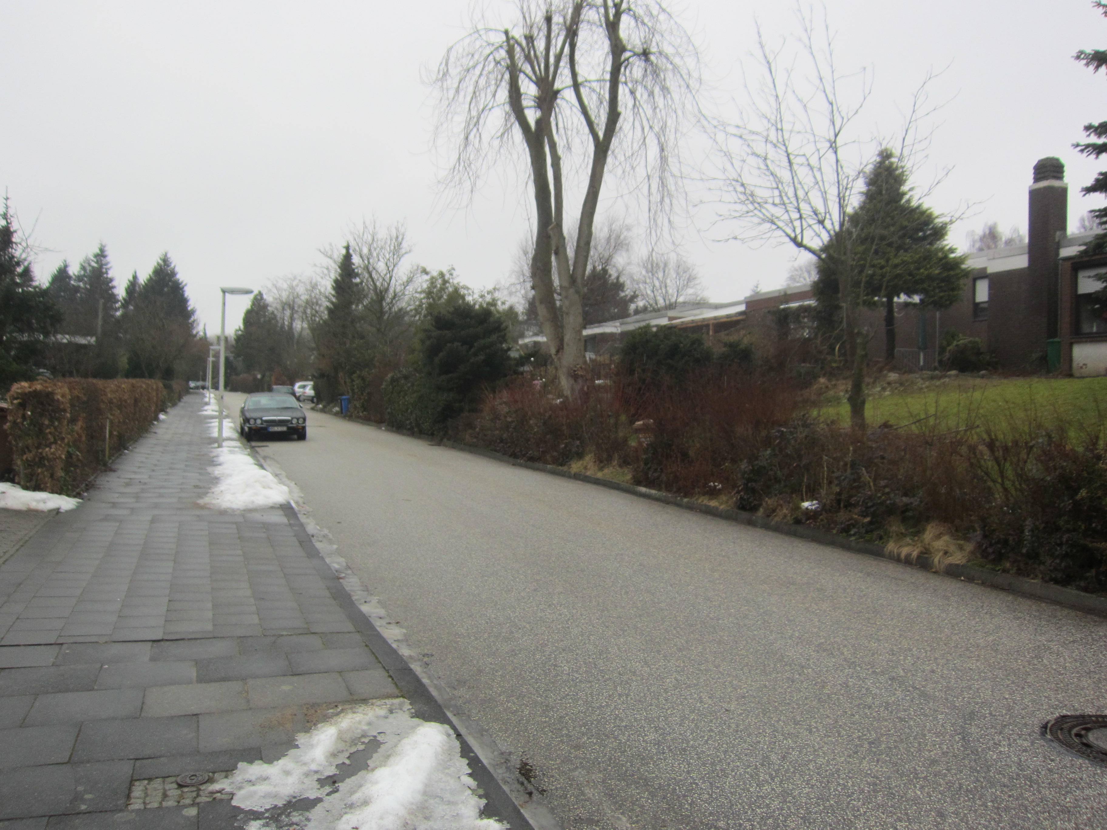 Street "Kopenhagener Allee" in Kiel-Mettenhof